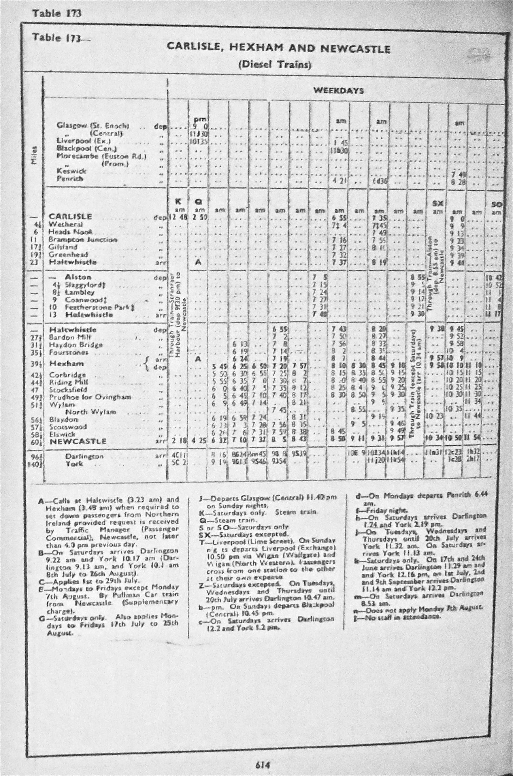 12-6 to 10-9-61 London Midland BR passenger services timetable